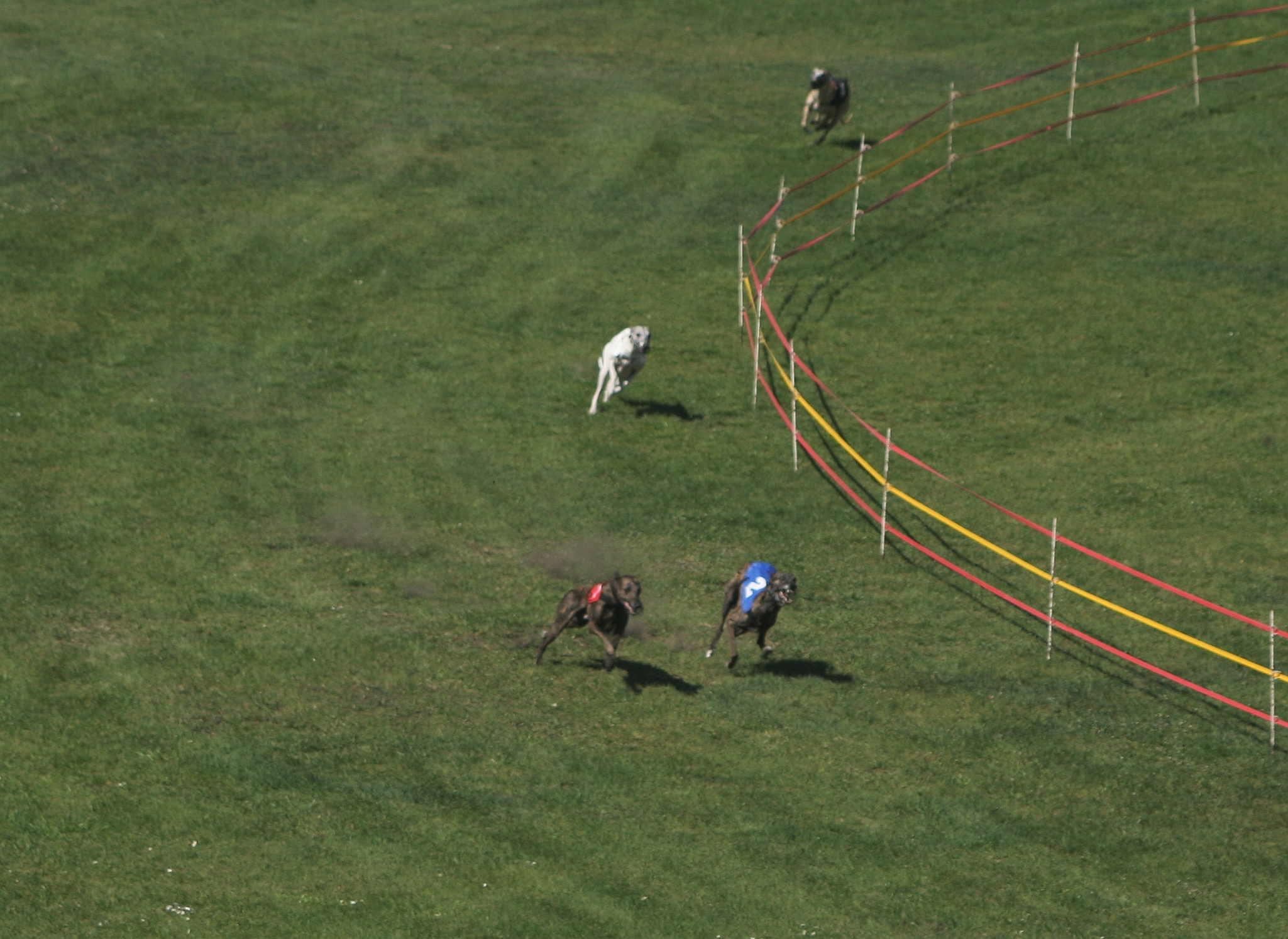 Whippets during the dog's racing in Bytom - Szombierki, Poland.